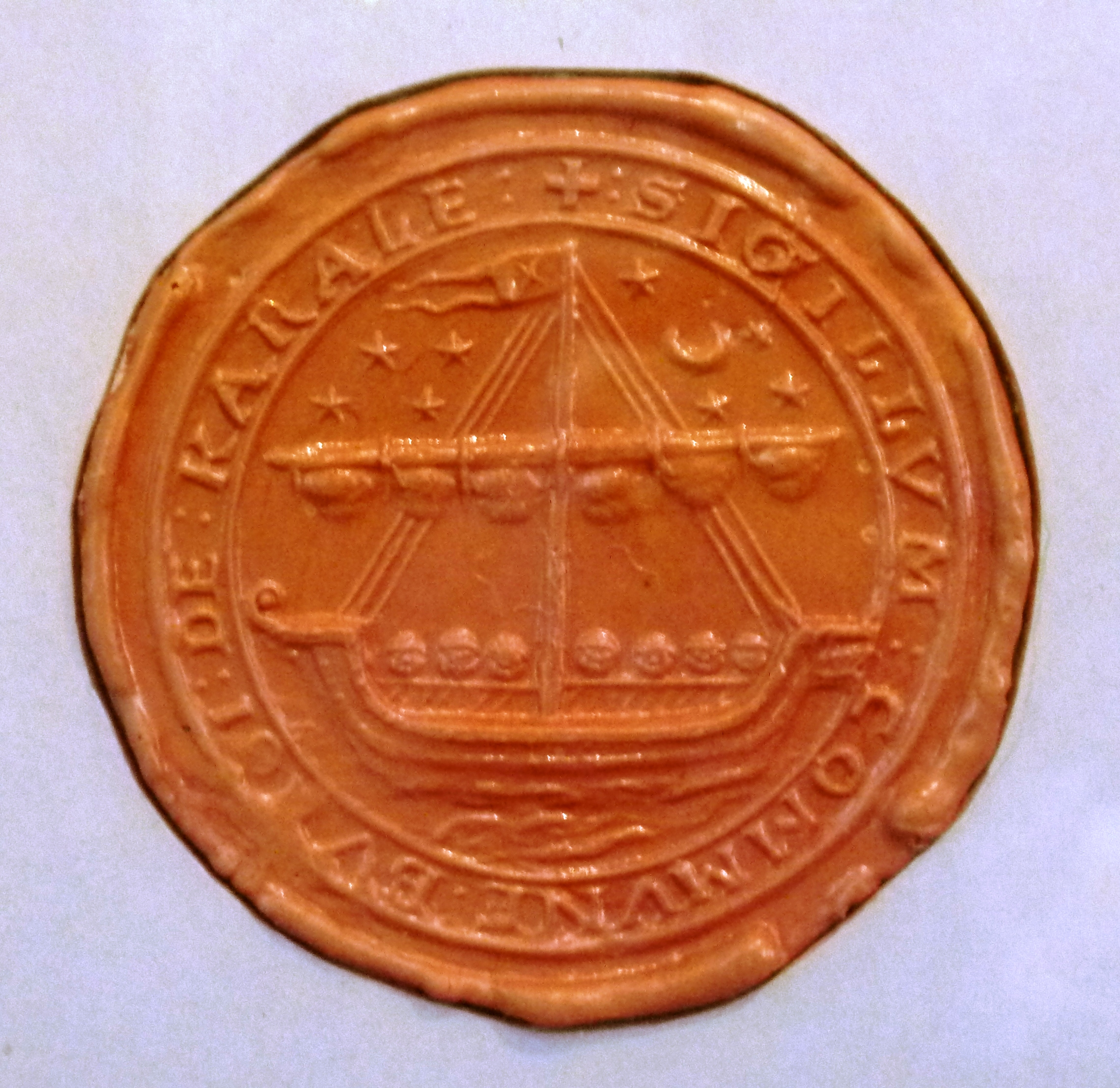 Reverse side of the burgh seal of Crail, a Fife fishing port. The design, from an early seal of 1357, is thought to be the earliest known depiction of herring fishing.